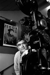 Michel Soutter